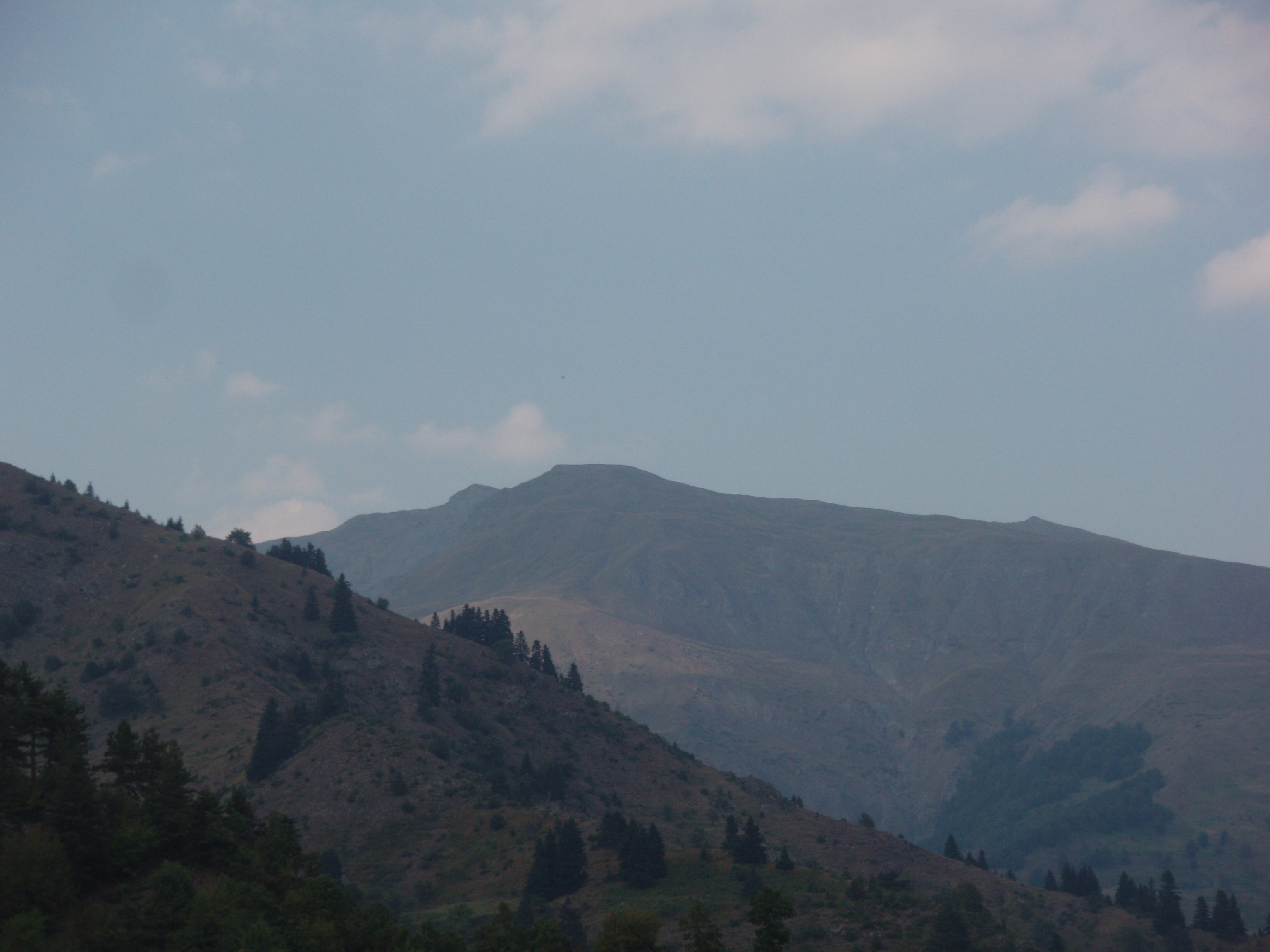 Grammos Mountain in Pindos mountain range, Greece. Its southern aspect as seen from the village of Plikati.